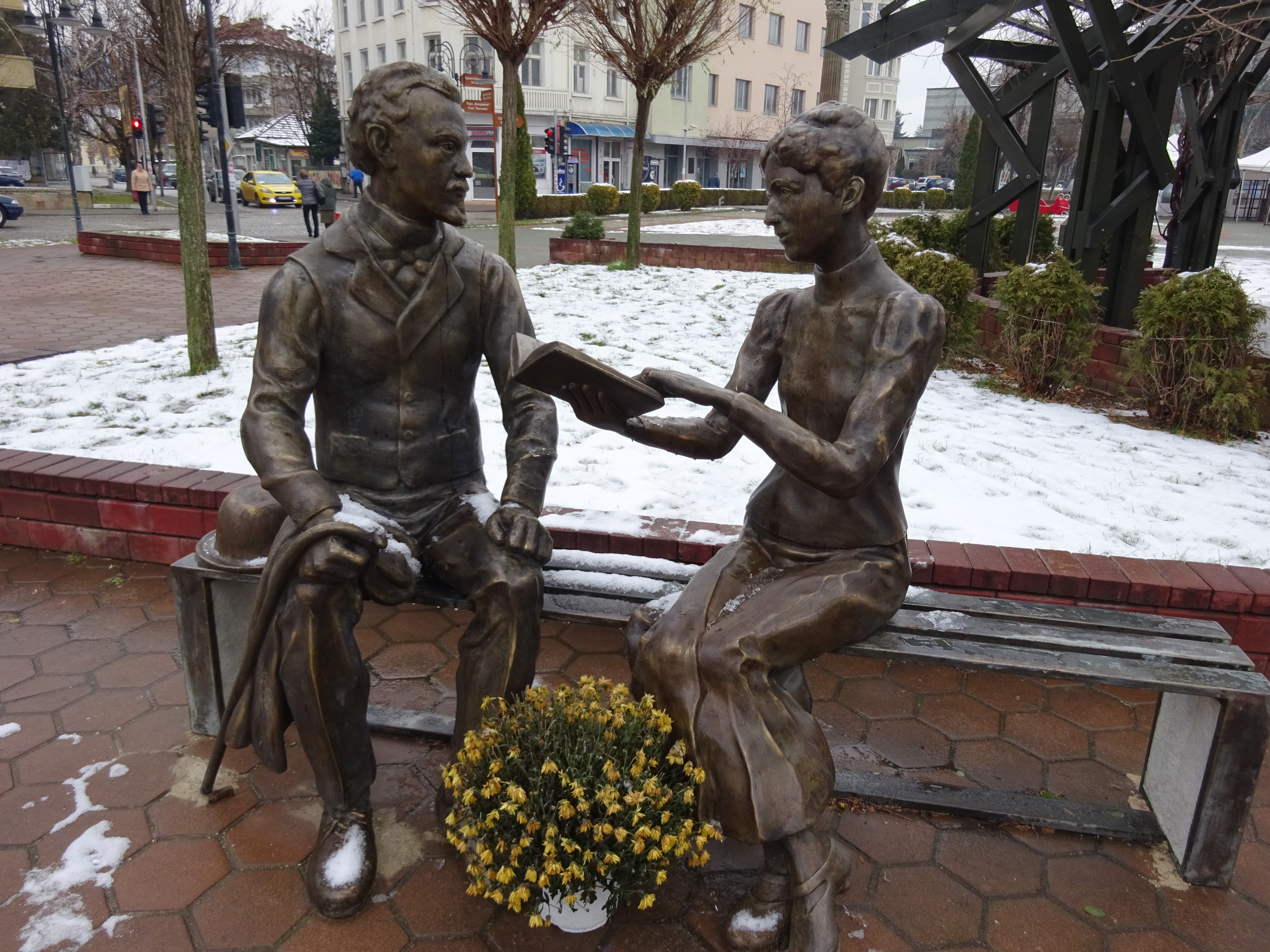 Паметник на Пенчо Славейков и Мара Белчева, Централен площад Севлиево